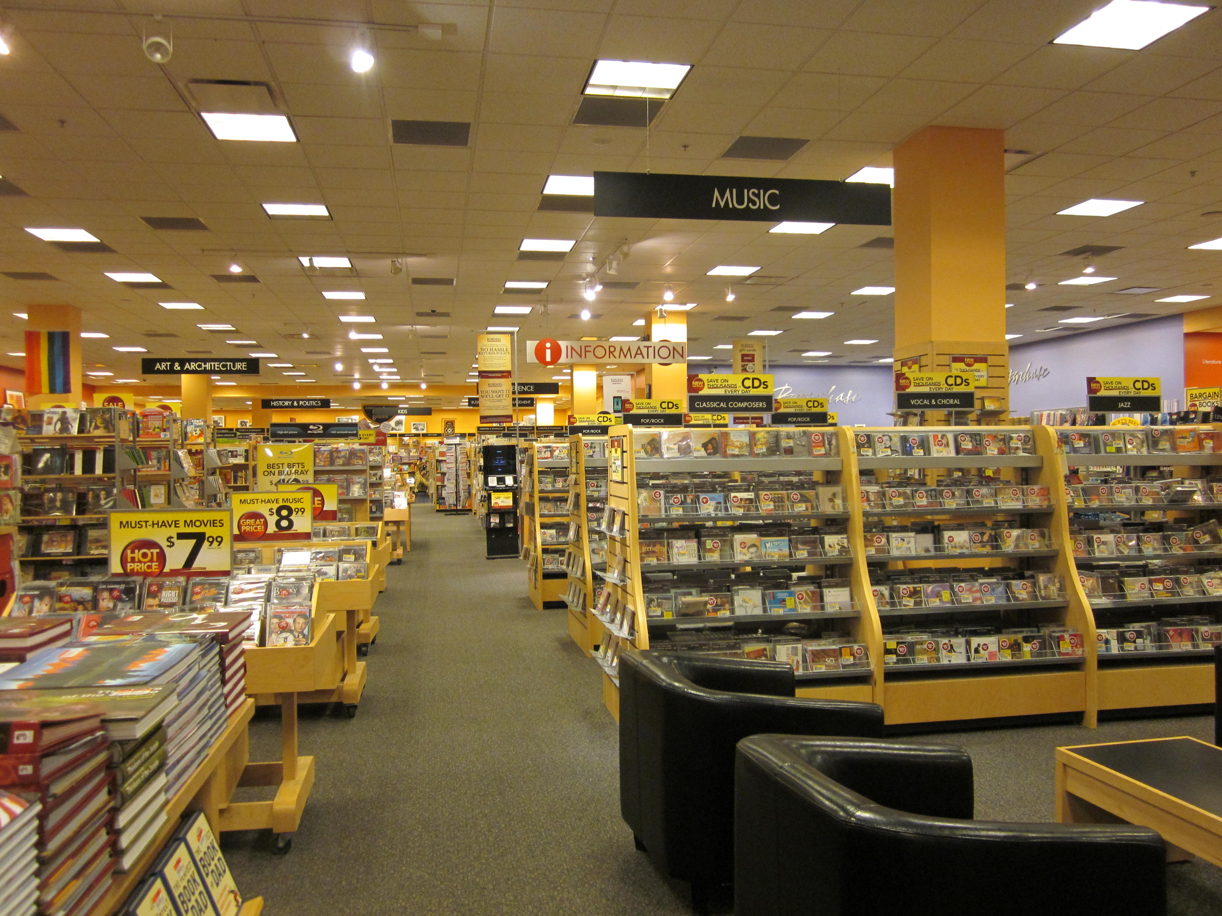 Borders at the Westfield San Francisco Centre, San Francisco